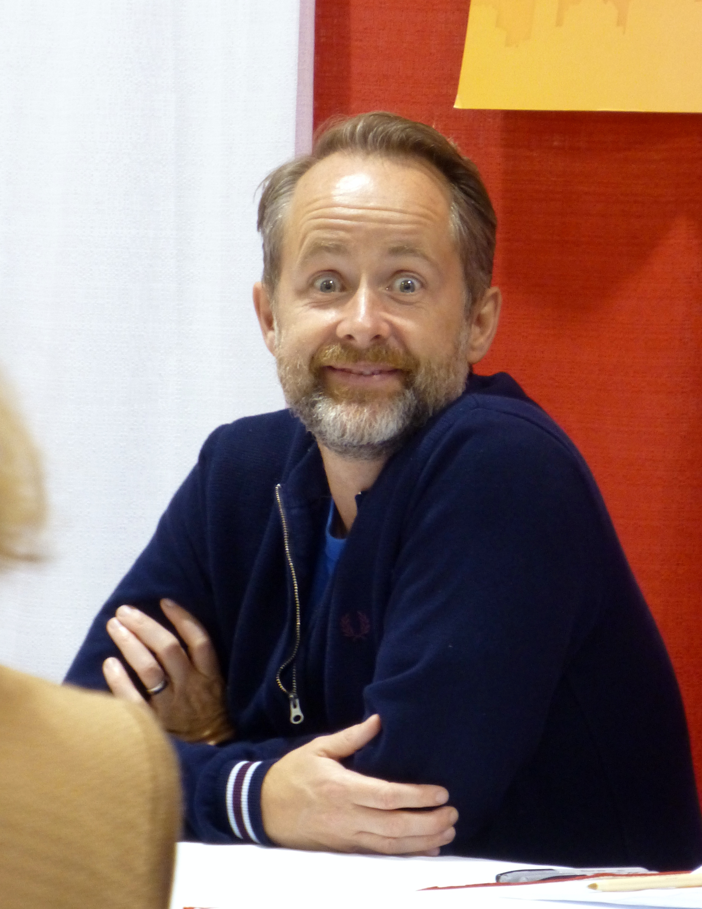 He looks happy Motor City Comic Con 2015